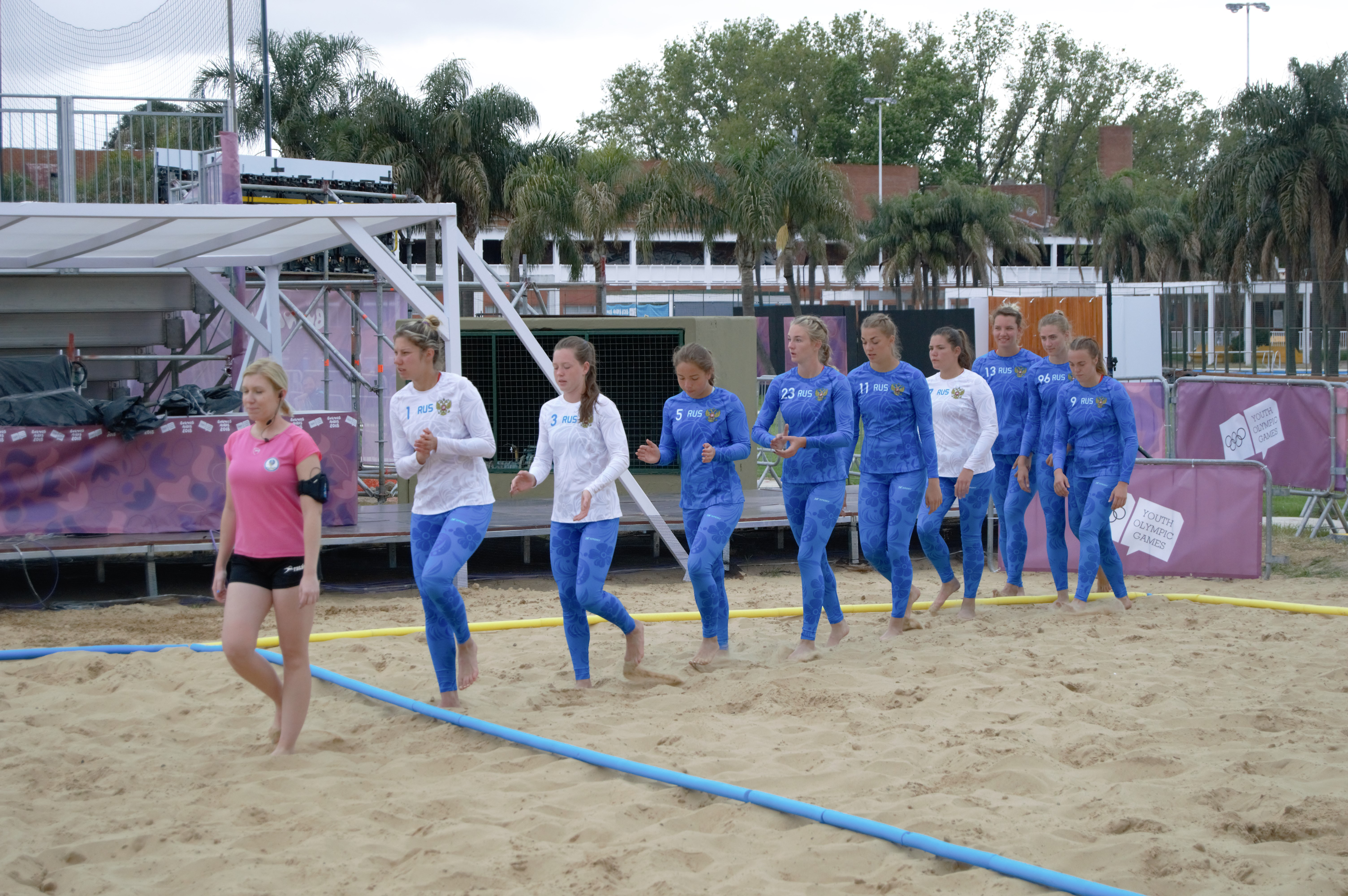 Beach handball at the 2018 Summer Youth Olympics at 11 October 2018 – Girls Consolation Round – Russia-Hong Kong 2:0